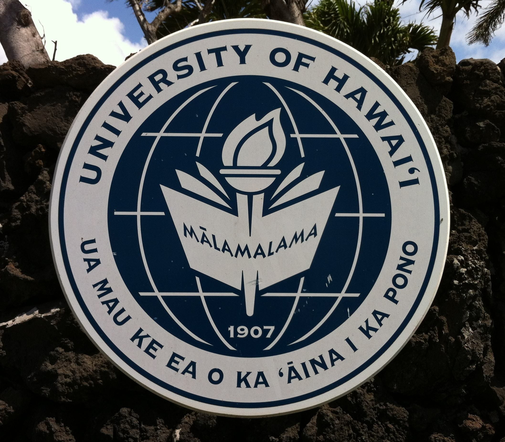 University of Hawaii Maui - Seal at entrance of campus